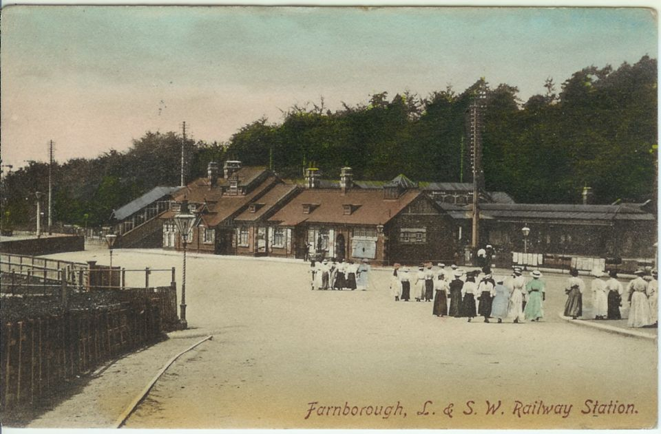 Farnborough (Main) Railway Station, Hampshire